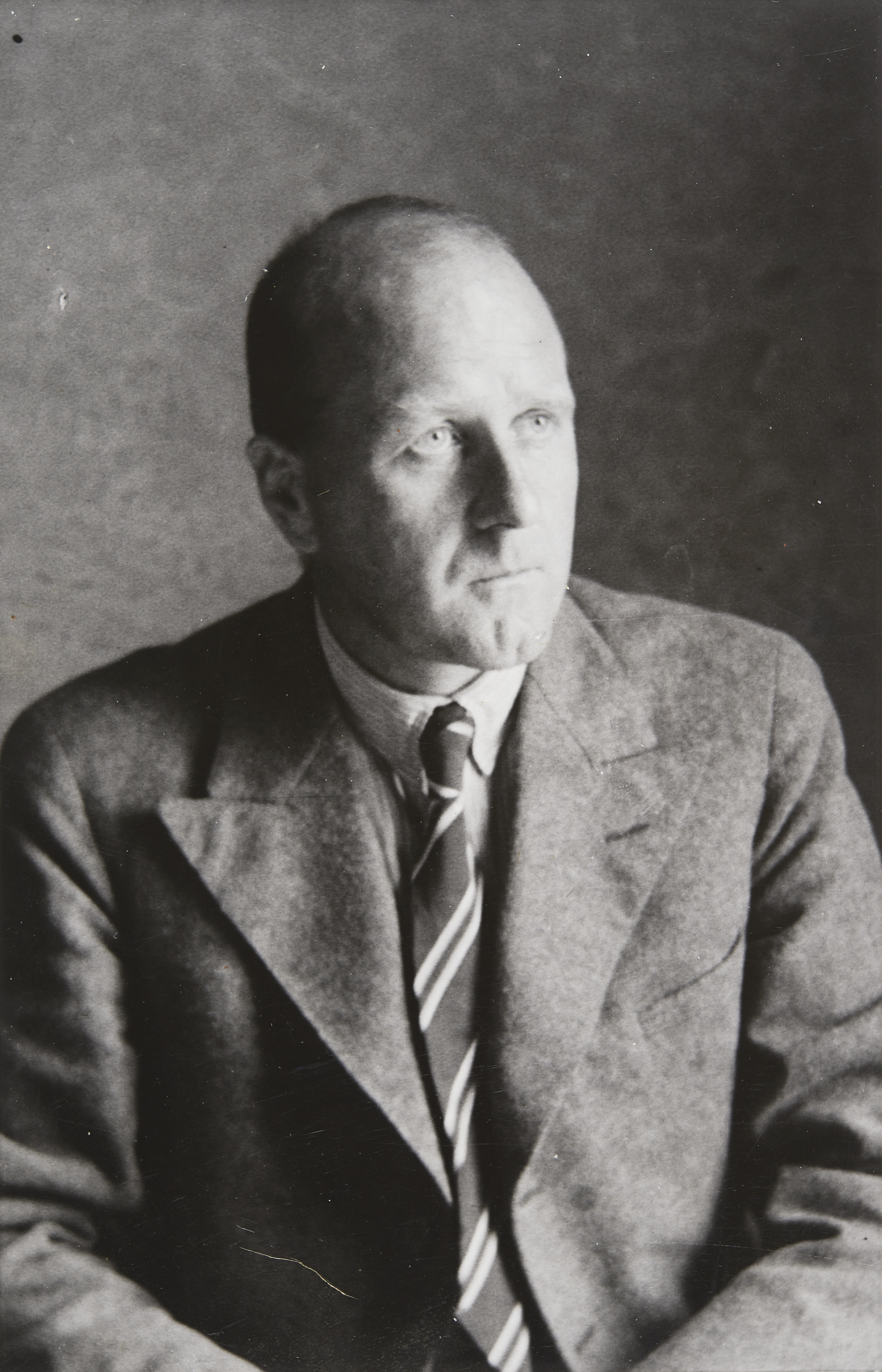 Photograph of the Finnish economist and professor Bruno Suviranta (1893–1967).